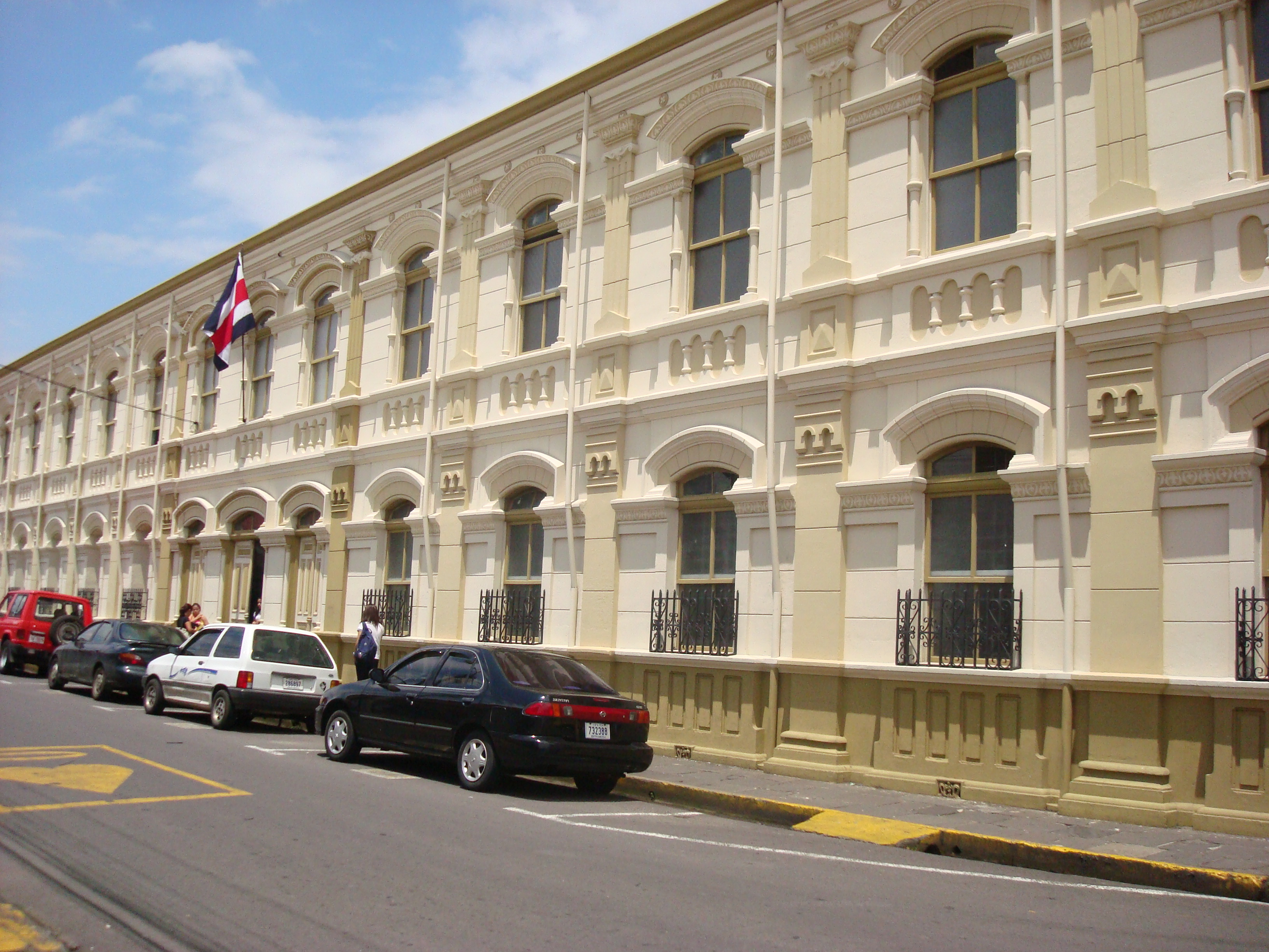 Liceo de Heredia